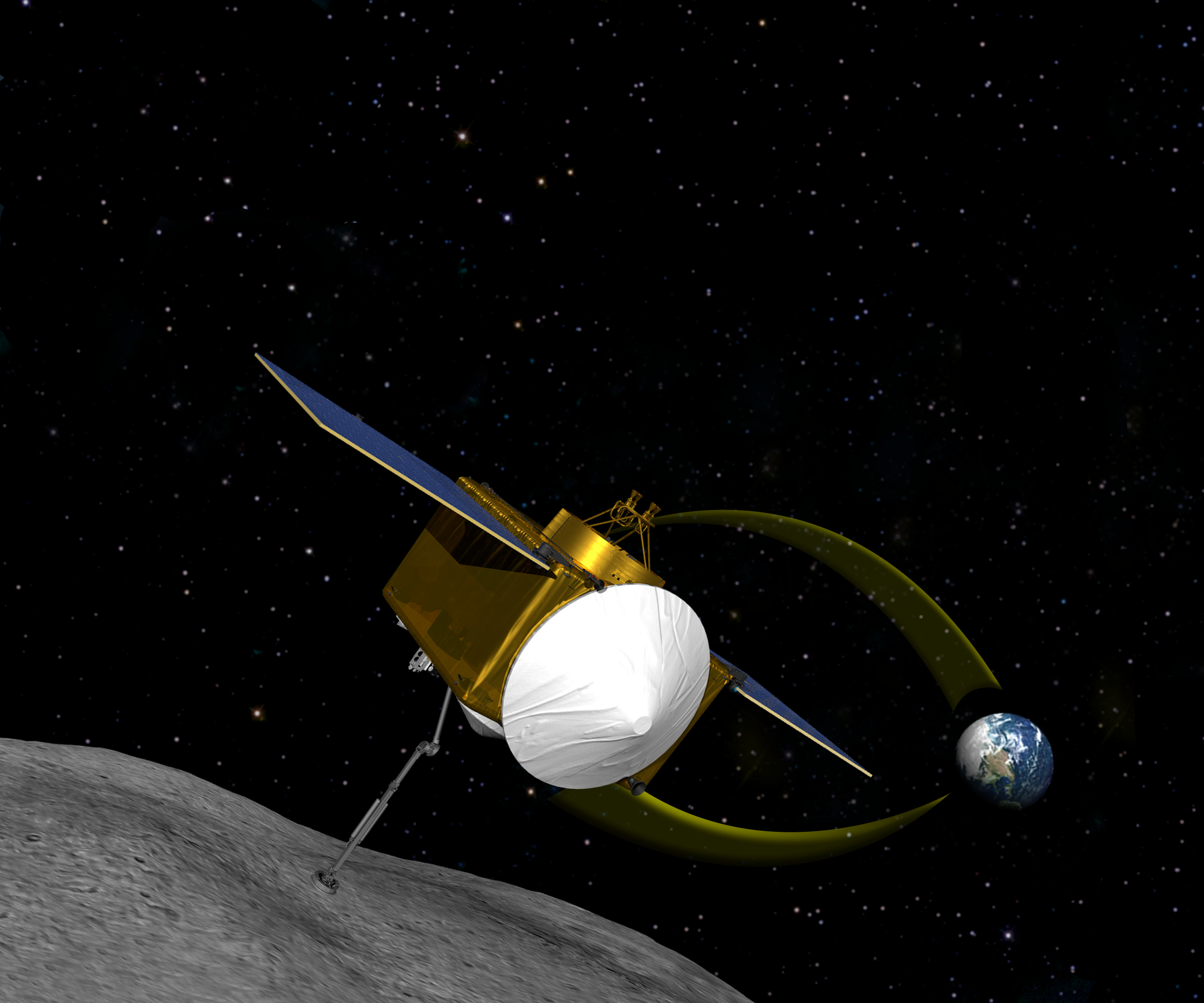 Artist's concept of the OSIRIS-REx spacecraft collecting a sample from asteroid 1999 RQ36.